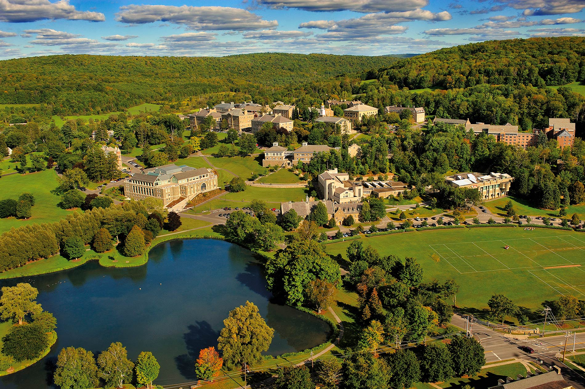 This is an aerial photograph of the Colgate University campus, including views of the campus hillside, Academic Quad, and Taylor Lake and Whitnall Field on the lower campus.